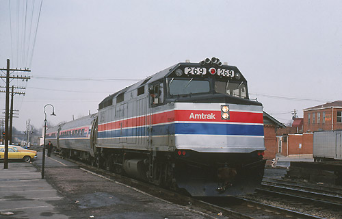 The eastbound Shenandoah at Gaithersburg station in March 1978